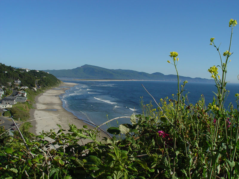 Description Oceanside, Oregon, Oregon: the beach. Date July 8, 2003 Location Oceanside Oregon Photographer Franco Folini